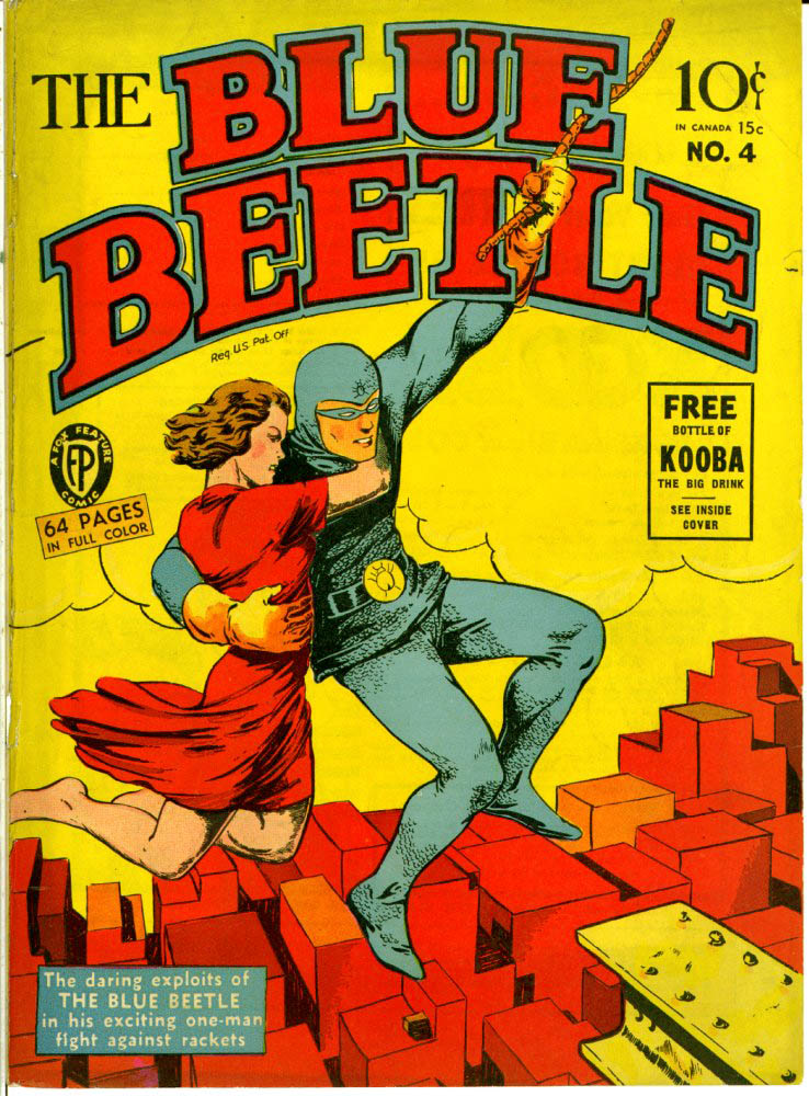 Cover of Blue Beetle #4, dated 1939. Source